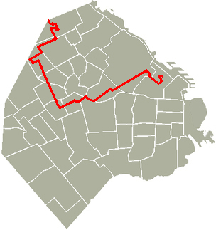 Map of colectivo, line 110, Buenos Aires.